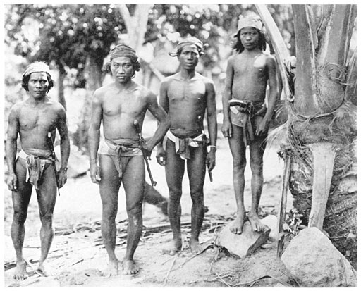 Photograph from "The Tinguian: Social, Religious, and Economic Life of a Philippine Tribe", published in 1922, and available from Project Gutenberg at